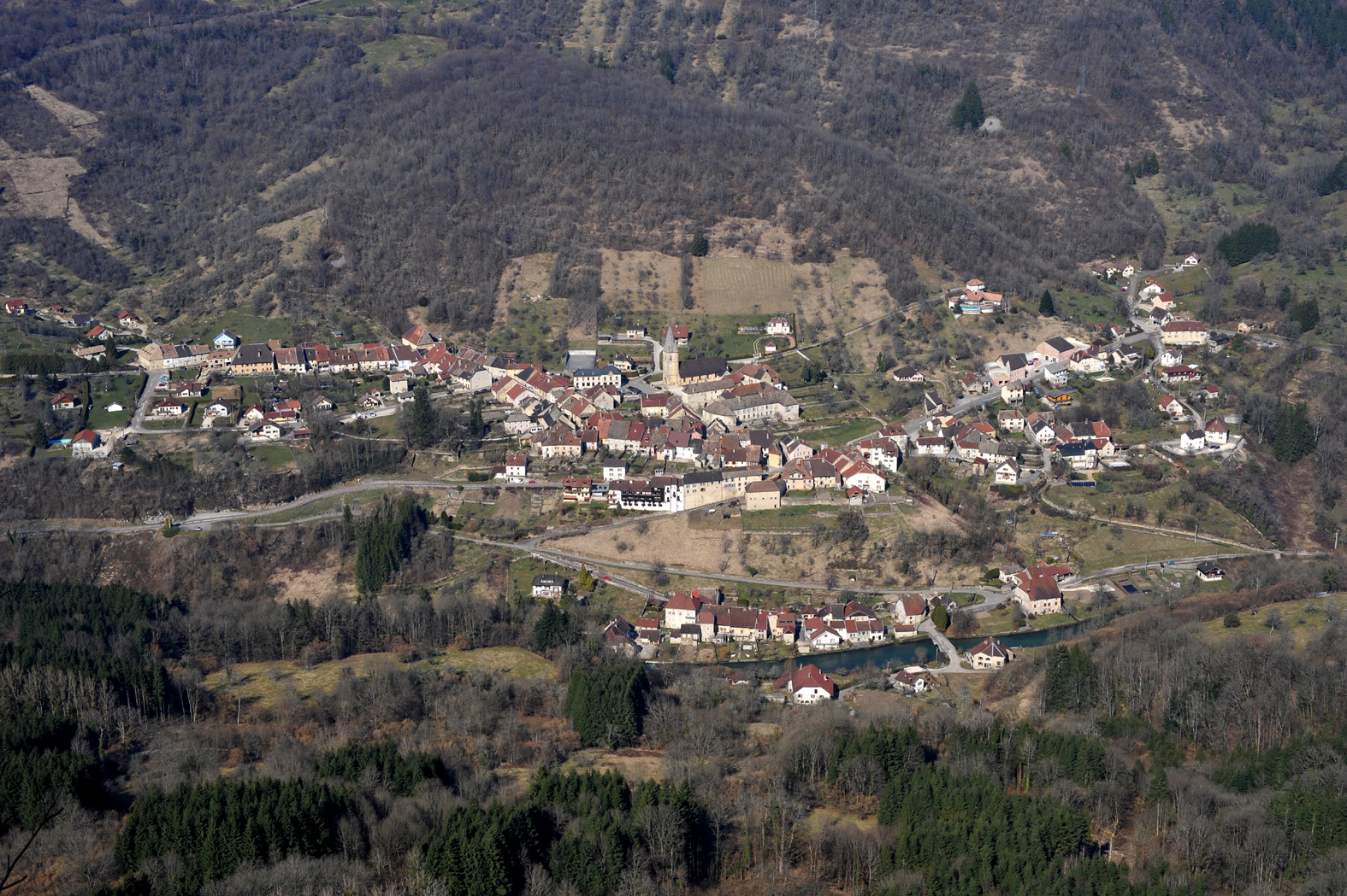 Vue to Mouthier-Haute-Pierre from viewpoint near Renédale; Franche-Comté, France.